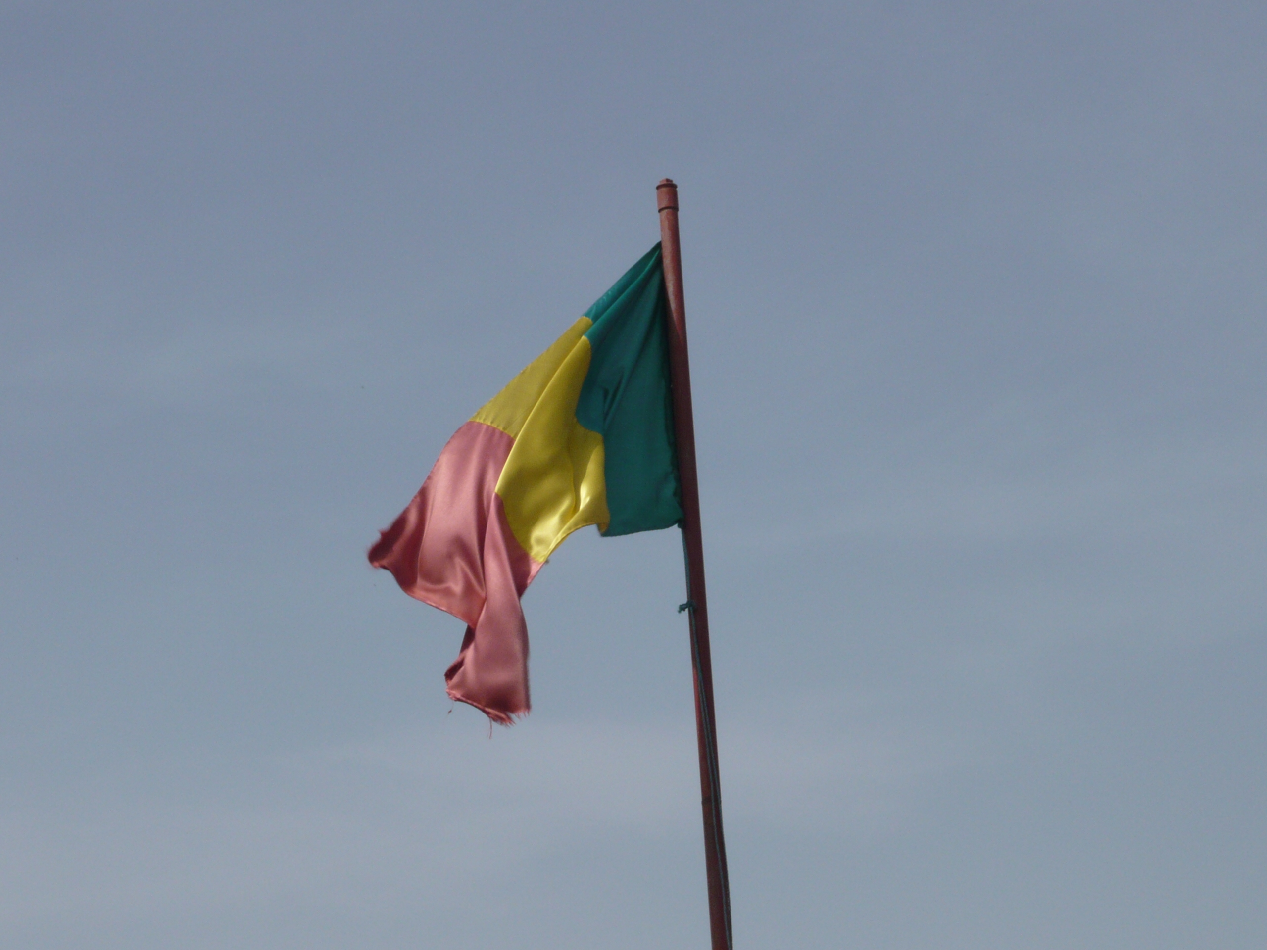 Flag of Mali waving at Keleya town hall, Mali